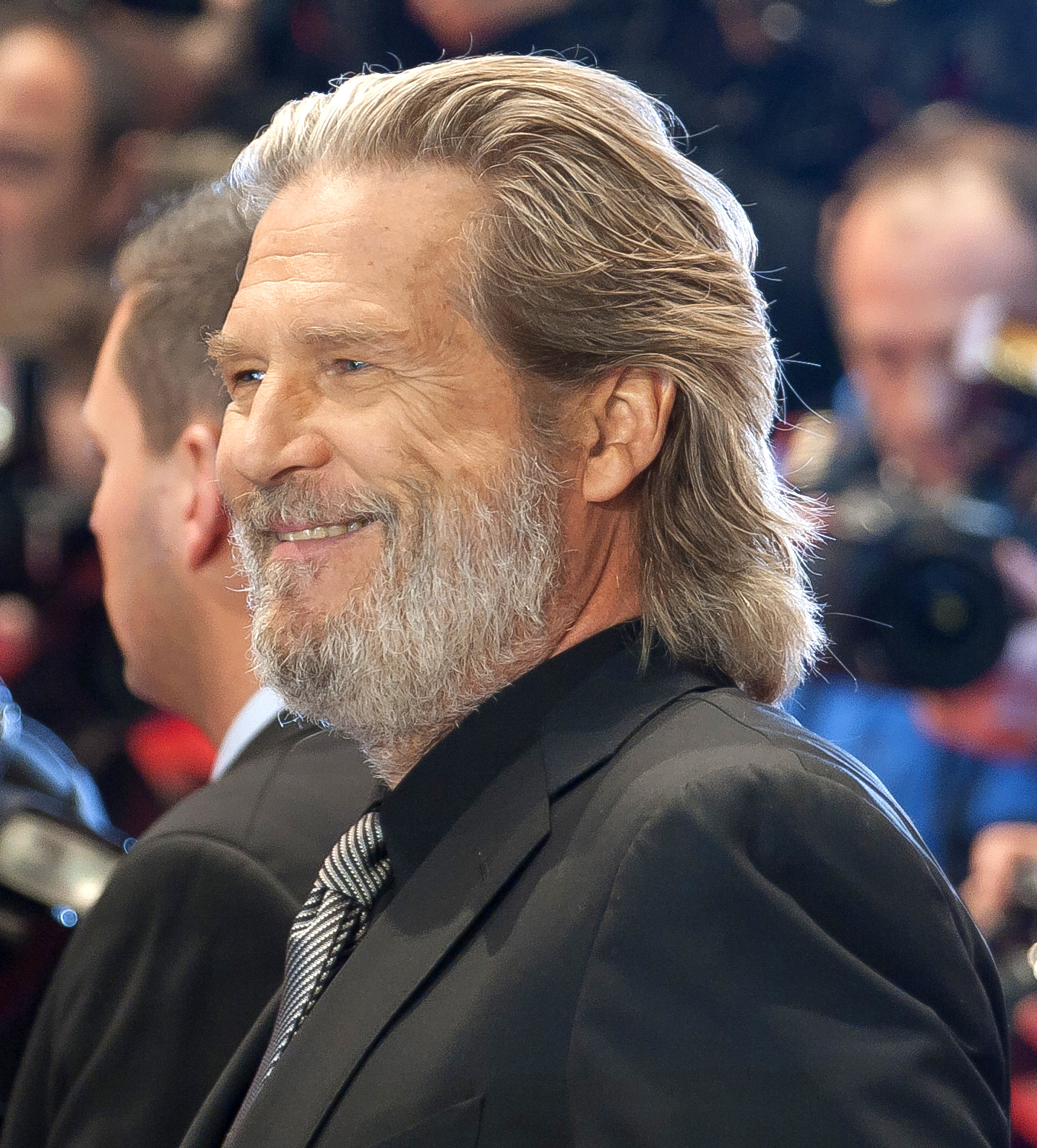 Jeff Bridges at the Premiere of True Grit at the Berlin Film Festival 2011